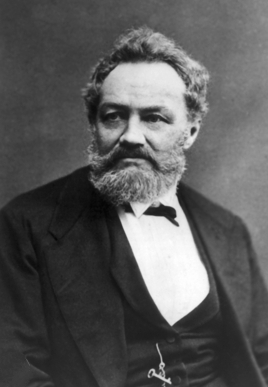 Alexander Theodor von Middendorff (Александр Федорович Миддендорф) (18 August 1815 – 24 January 1894)